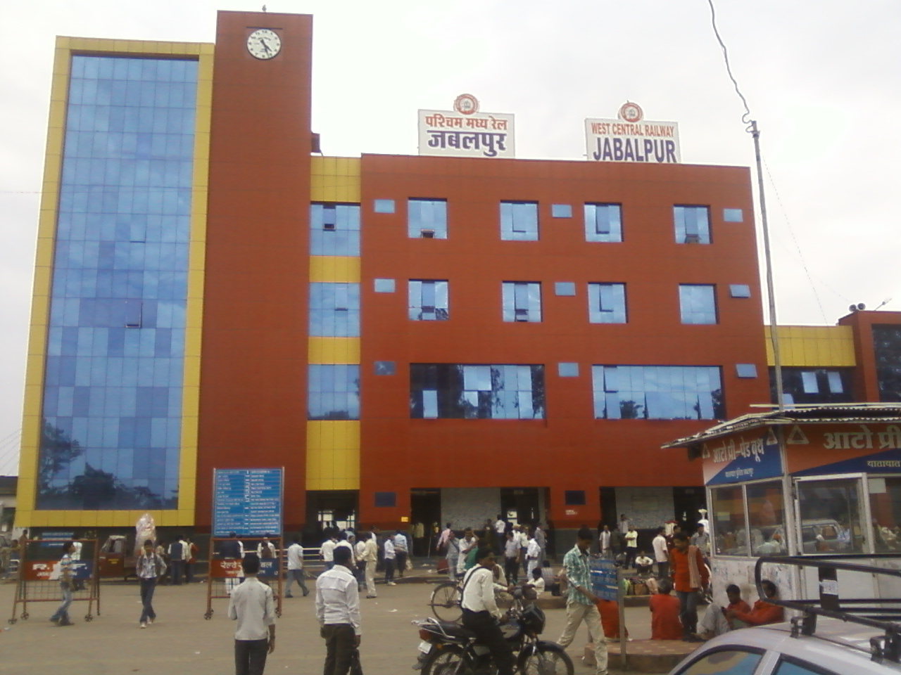 Annexe-II bulding at Jabalpur